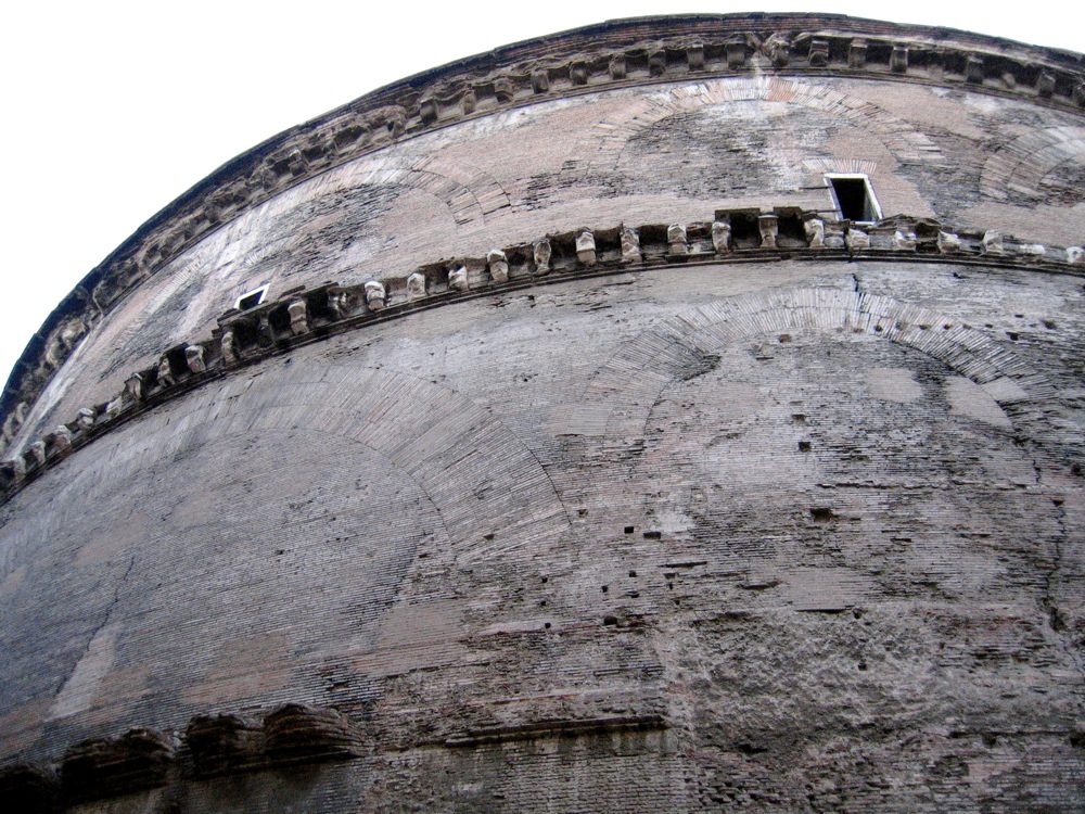 Pantheon retro, Roma, Italy.